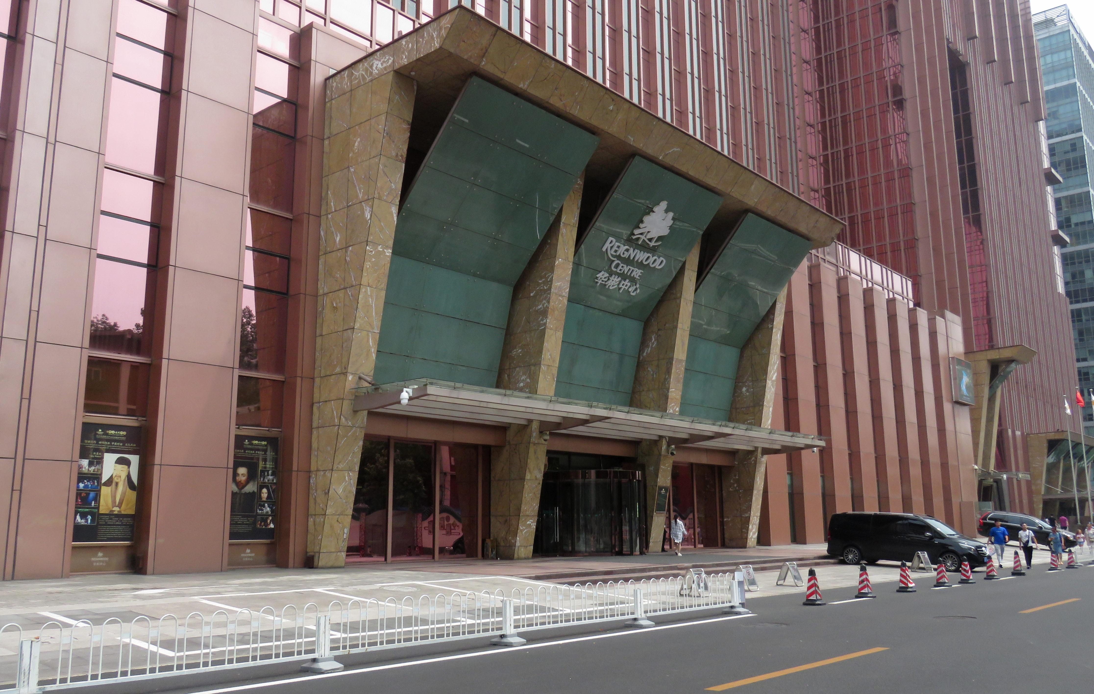 The headquarters of Reignwood Group (华彬集团) is right here at Yonganli.